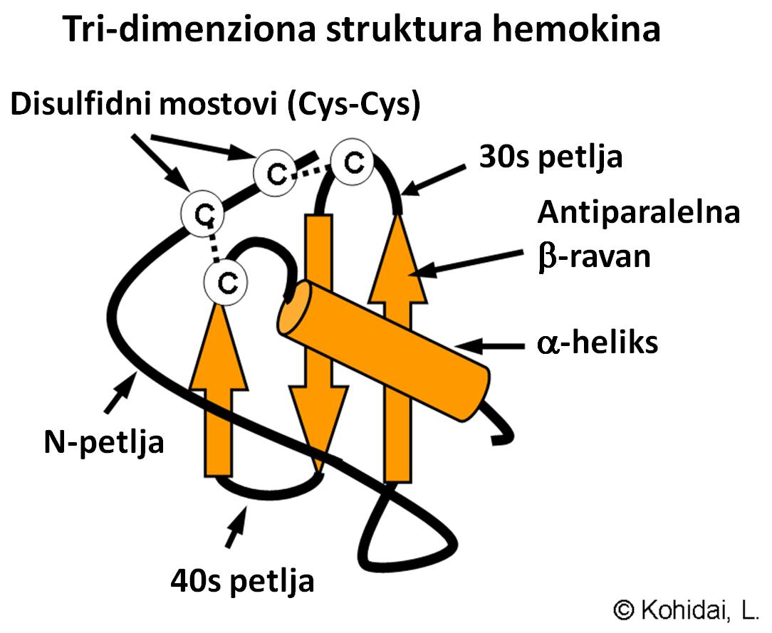 Structure of chemokines. This is a traslation of the File:ChtxChemkinStr2.png on Serbian language.